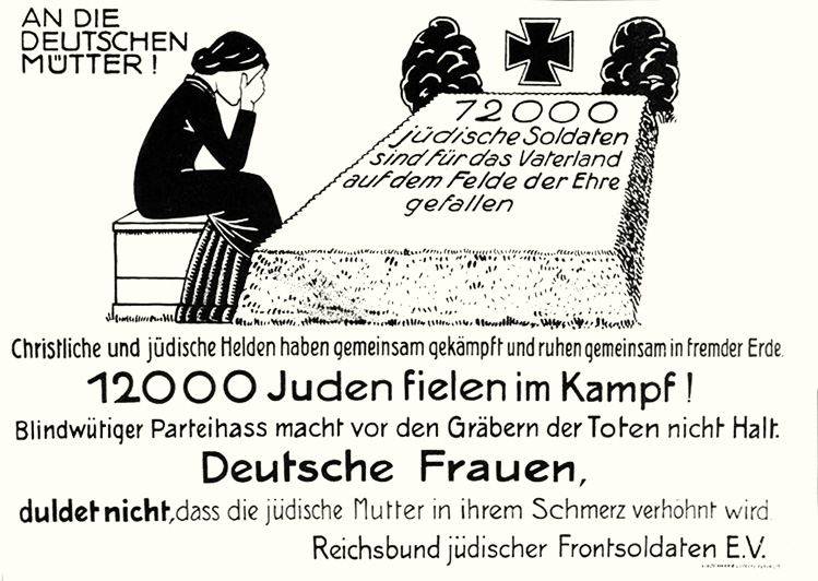 German 1920 poster/leaflet. A Roll of Honor Commemorating the 12,000 German Jews Who Died for their Fatherland in World War I. To German mothers! 12,000 Jewish soldiers died on the field of honor for the fatherland. Christian and Jewish heroes fought together and rest together in foreign soil. 12,000 Jews fell in battle! Blind, enraged Party hatred does not stop at the graves of the dead. German women, Do not allow that the suffering Jewish mother be mocked in her pain! The Reich Association of Jewish Combat Veterans